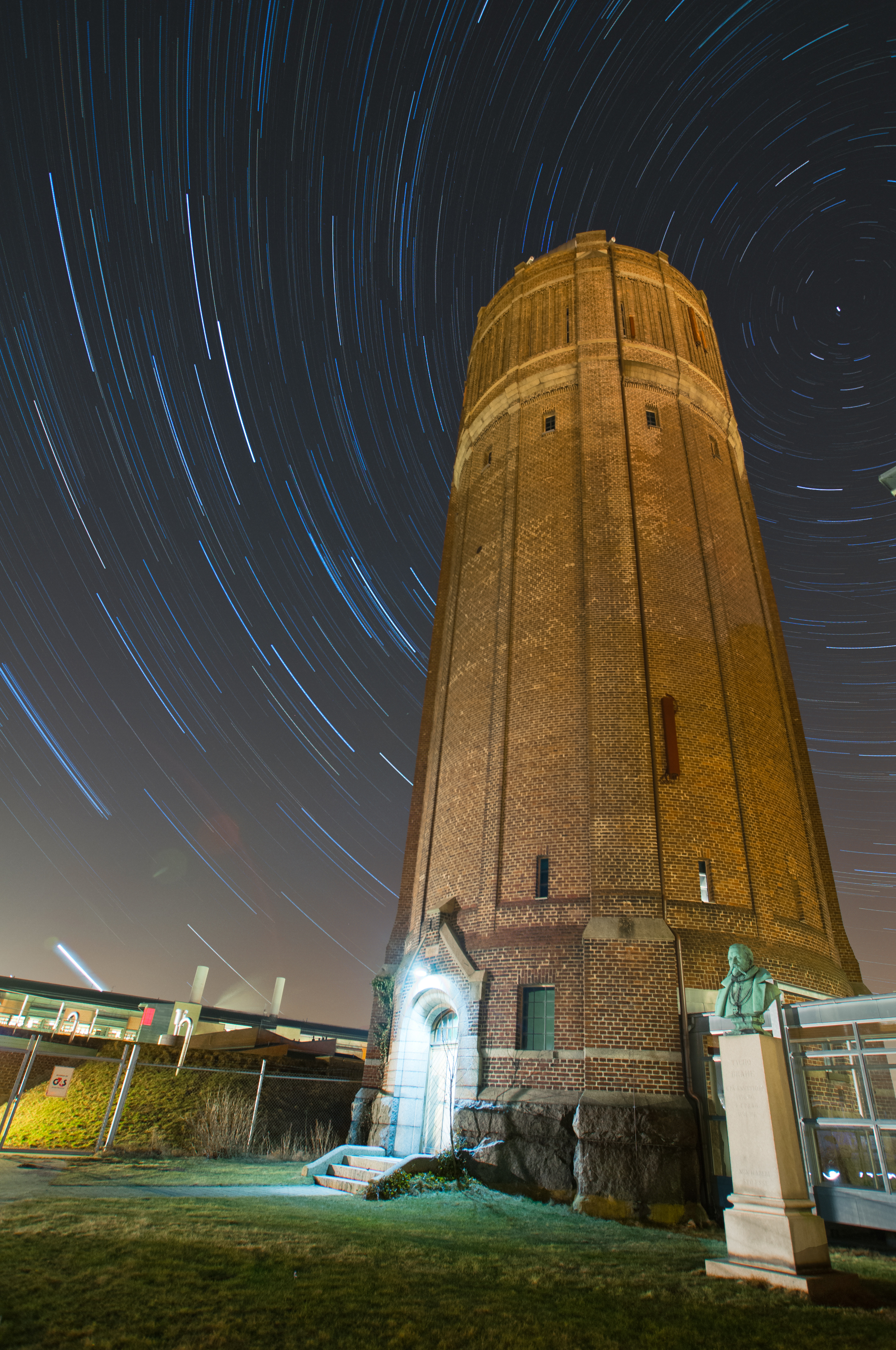 Lund Observatory is a part of the Department of Astronomy and Theoretical Physics in Lund University. Beside the tower stands a statue of Tycho Brahe